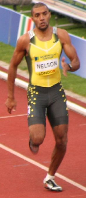 Alexander Nelson Crystal Palace Meeting in 2007.